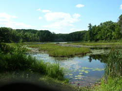 Alta Warren Parsons Memorial Nature Sanctuary — Clare County, Michigan.